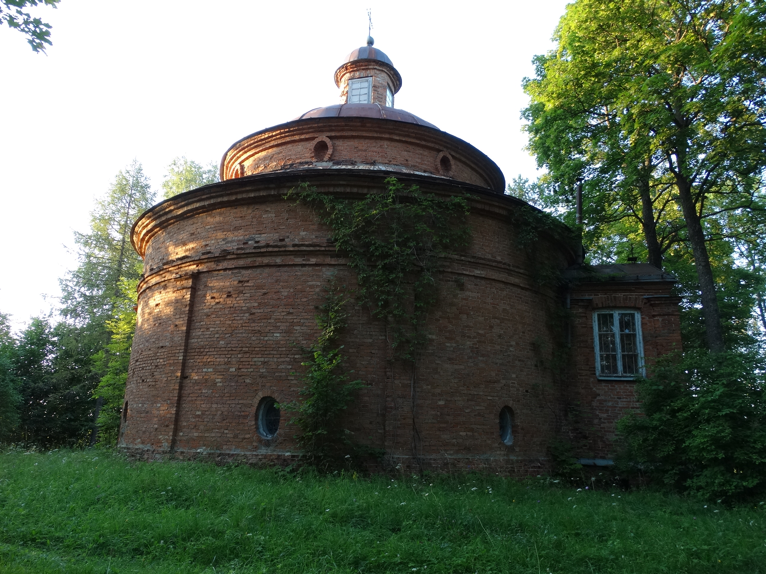 Chapel, Didžiokai, Molėtai district, Lithuania